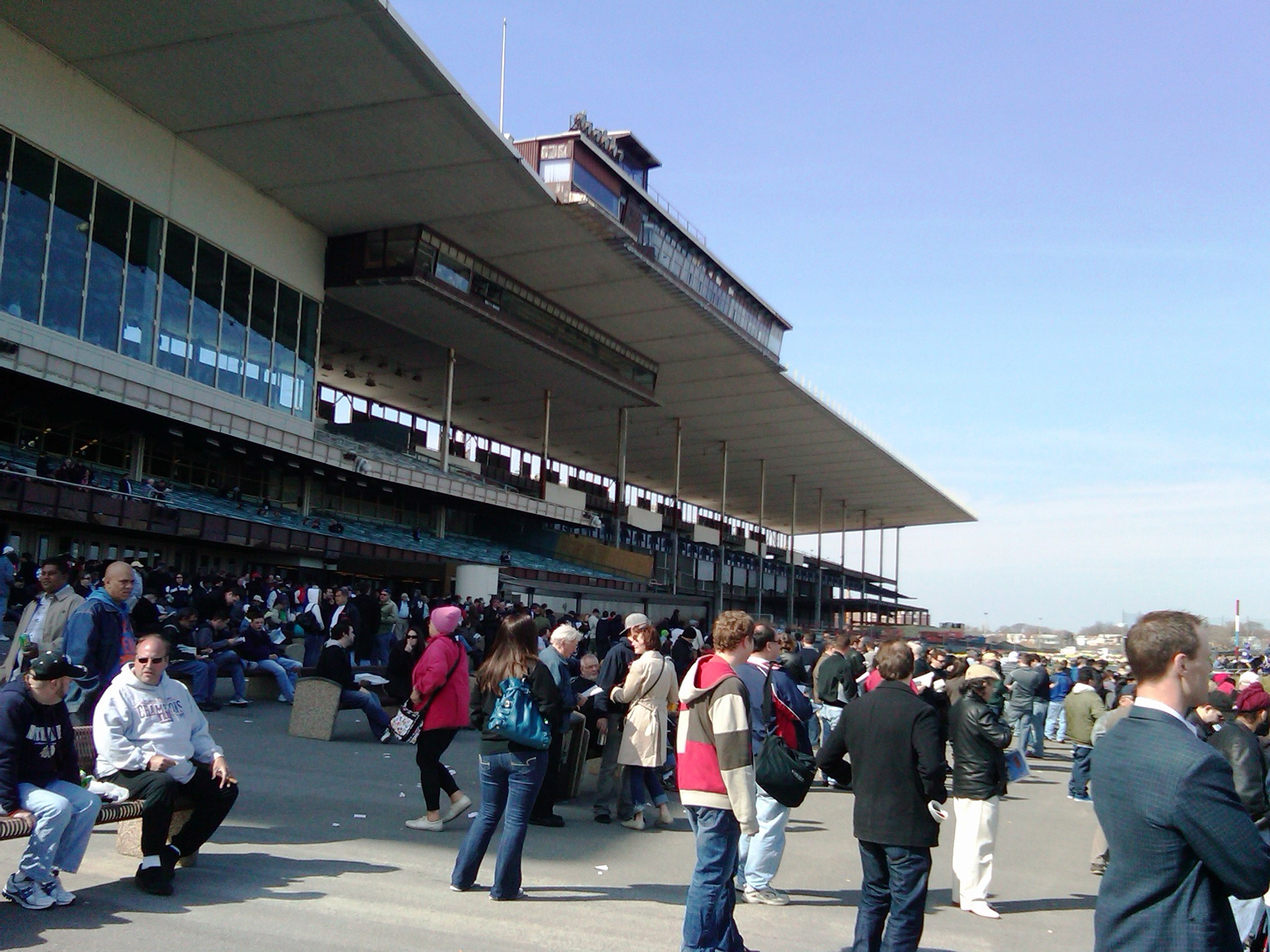 Grandstand at Aqueduct Racetrack